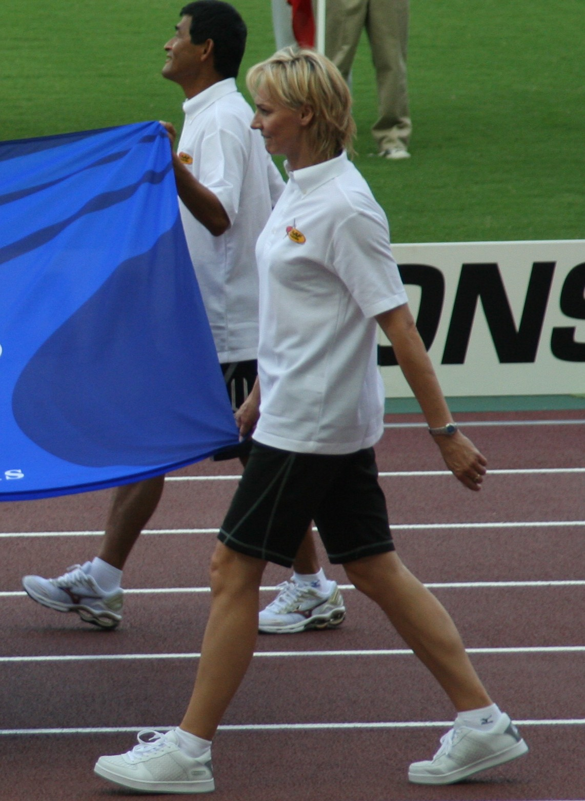 World Athletics Championships 2007 in Osaka - Former German athlete Heike Drechsler during the opening ceremony